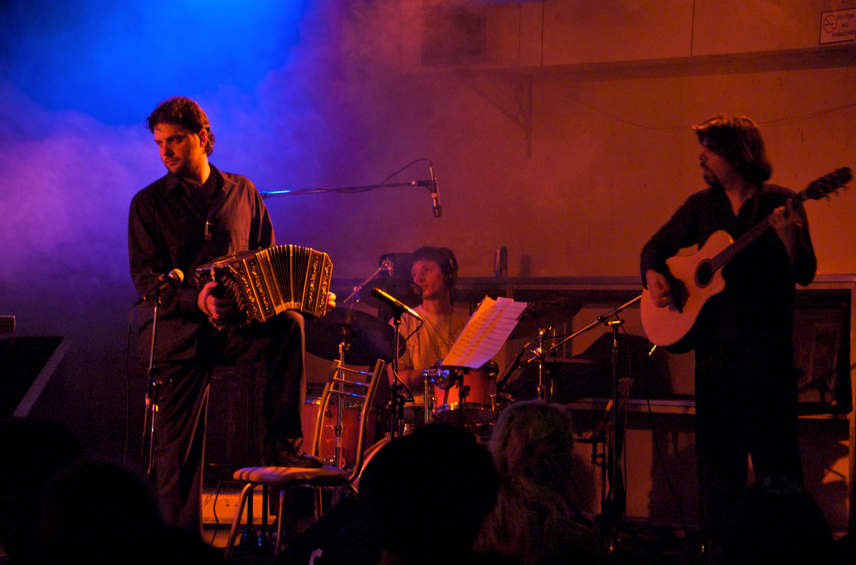 Show de Tanghetto.